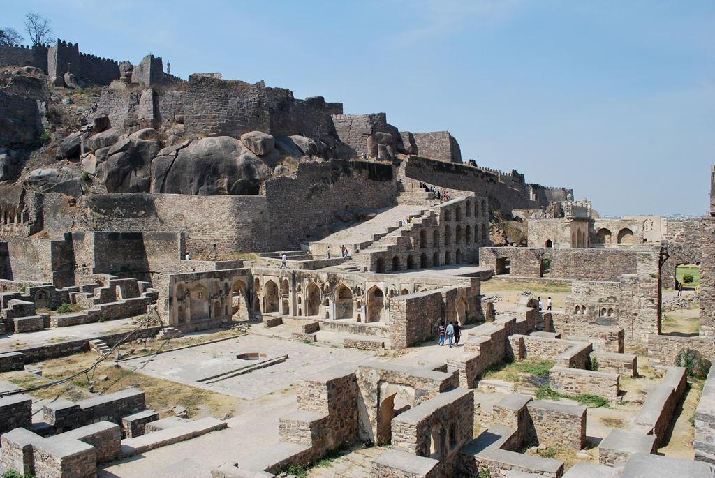 Golconda Fort, Hyderabad